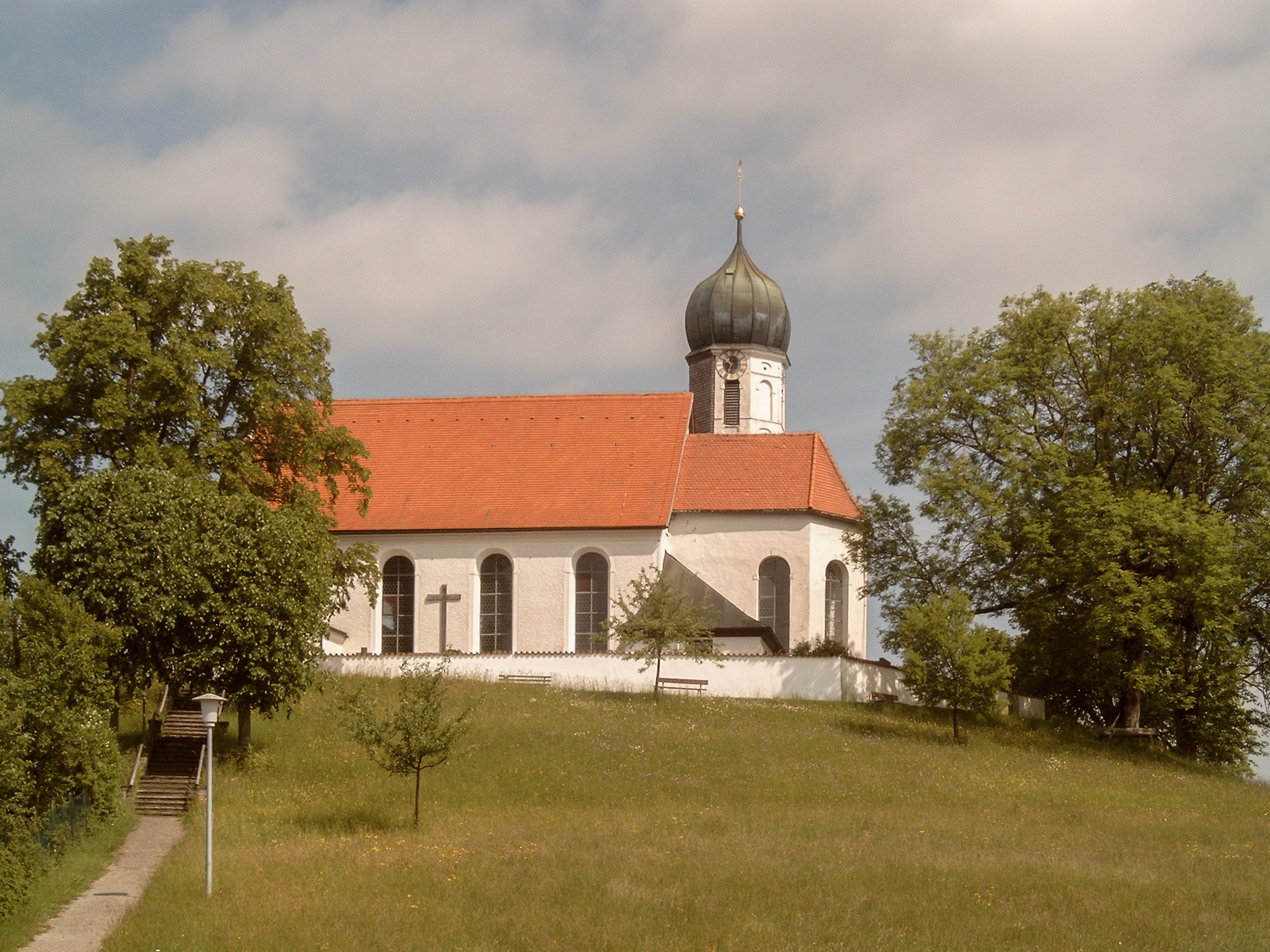 Rückholz, church